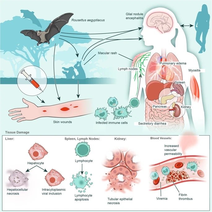 MARV pathogenesis in humans. Transmission and virus spread in the human body are depicted